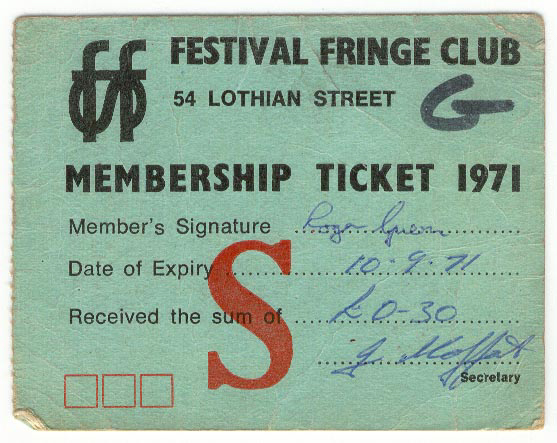 Membership card for the Edinburgh Festival Fringe Club, a popular social venue in the early years of the Edinburgh Festival Fringe.